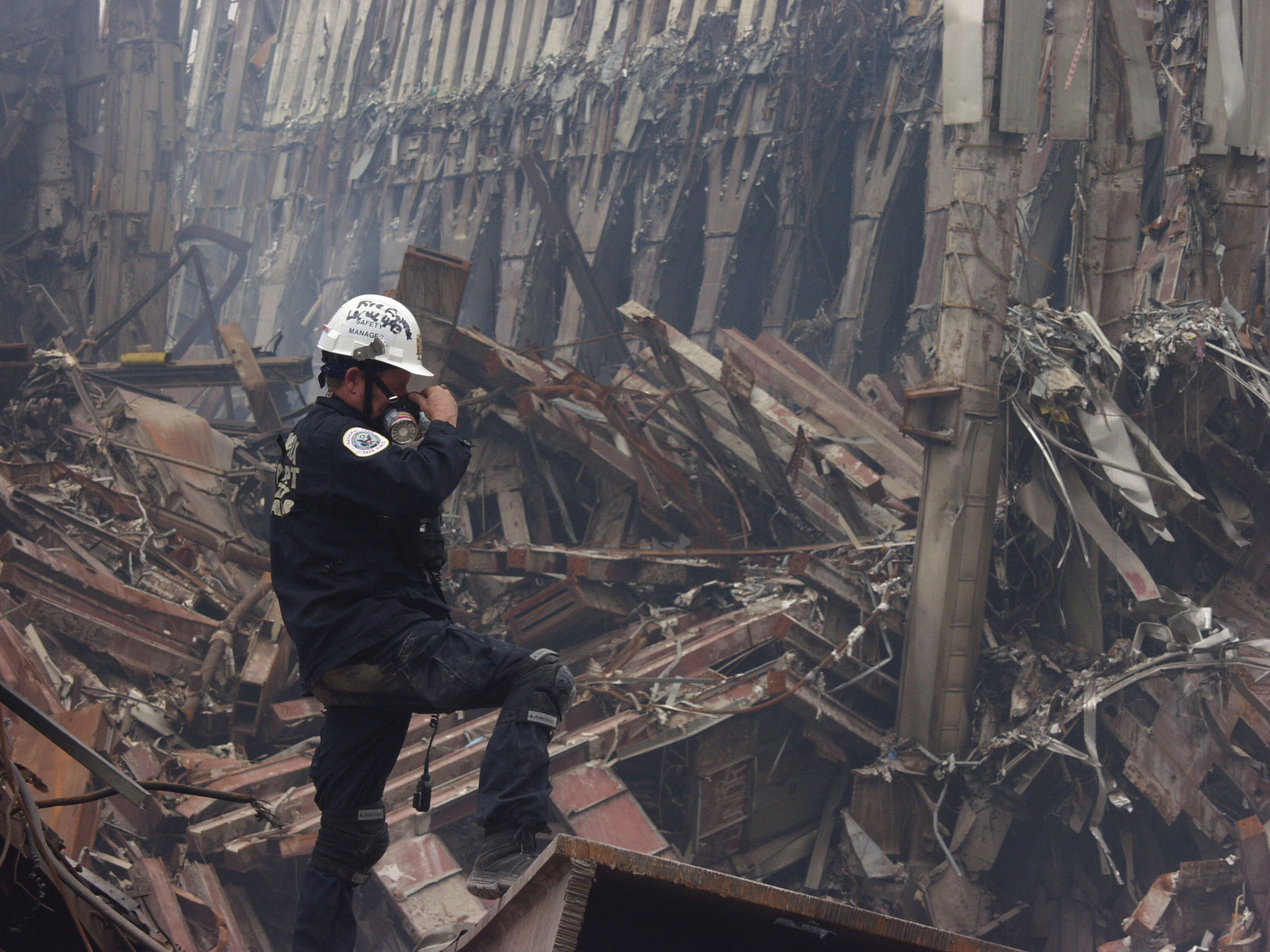 New York, NY, September 24, 2001 -- A member of the Arizona Urban Search and Rescue Task Force-1 surveys the wreckage at the World Trade Center crash site. Photo by Michael Rieger/ FEMA News Photo